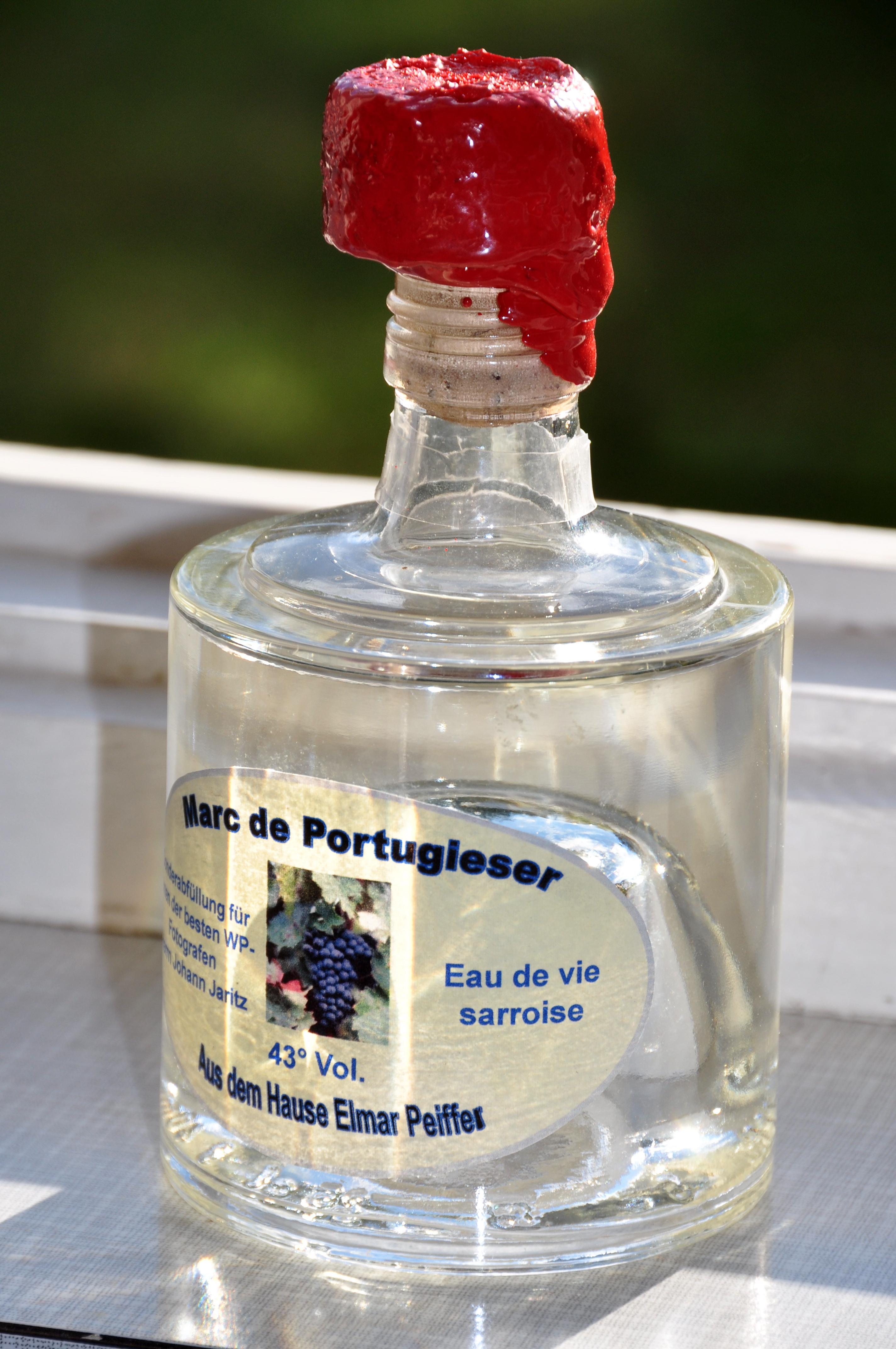 Bottle with brandy from Saarland, drawn by distillation from mash of Portuguese grapes, brand "Elmar Peiffer"